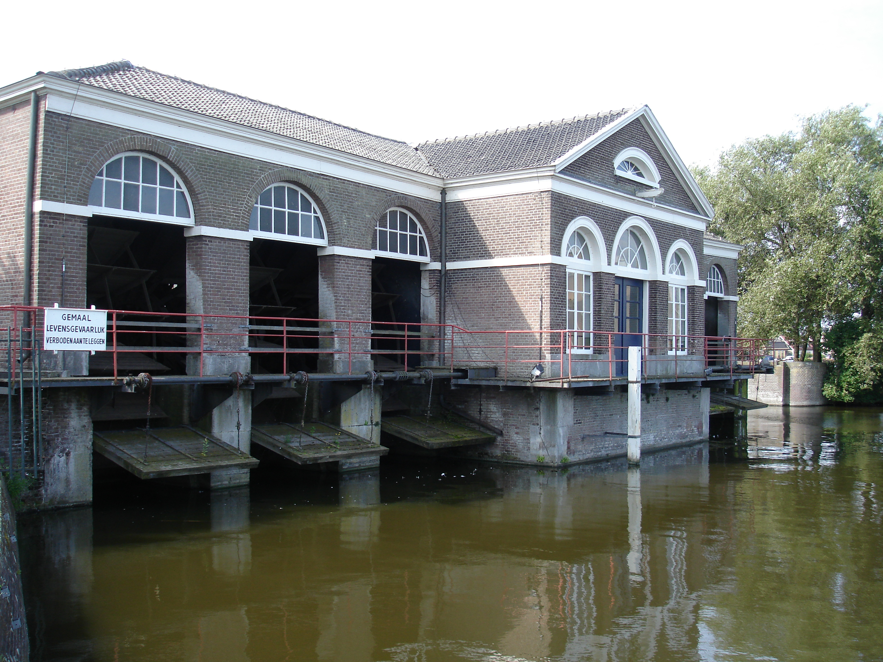 Pumping Station Halfweg, The Netherlands